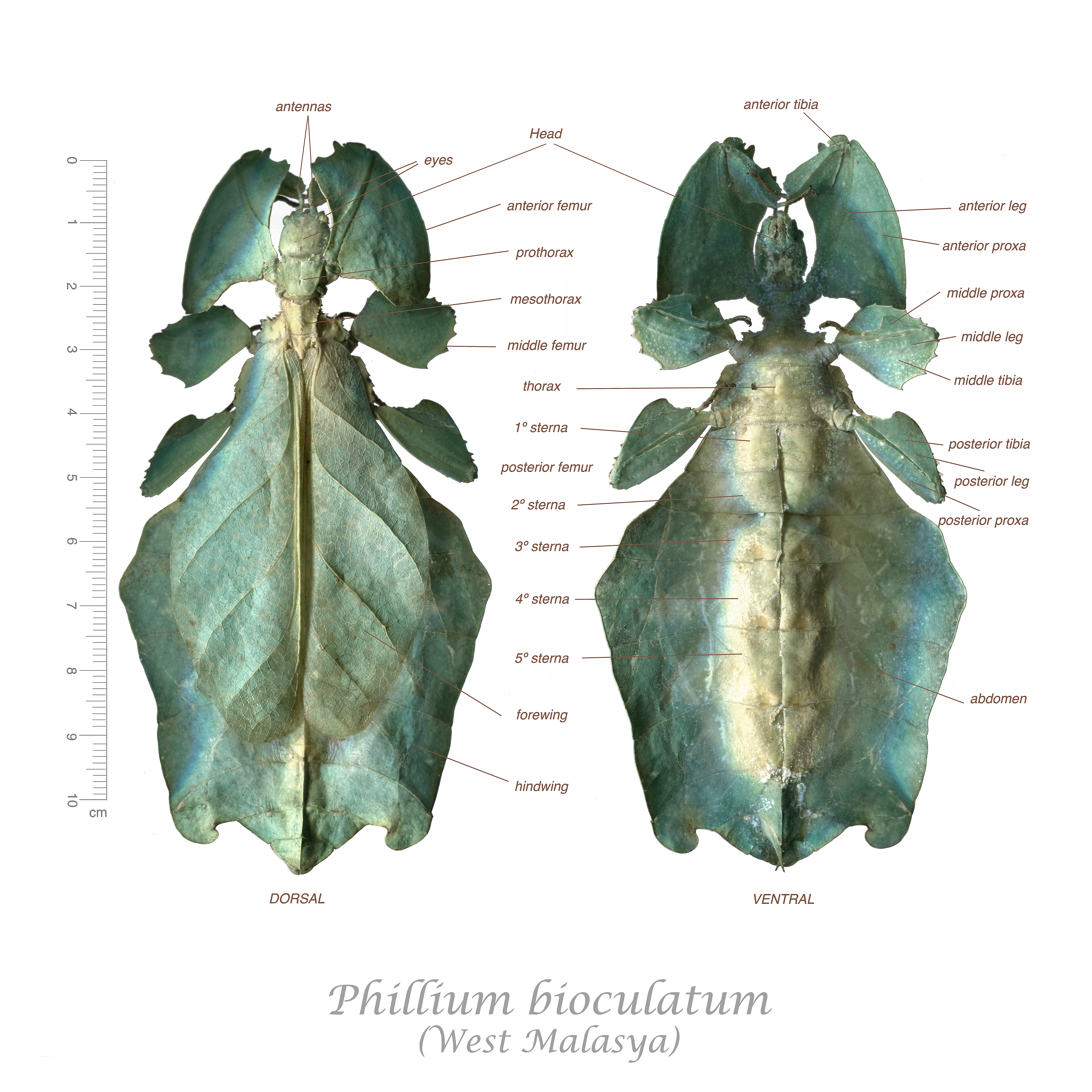 Phasmatodea; Phyllidae; Phyllium bioculatum; G. R. Gray 1832